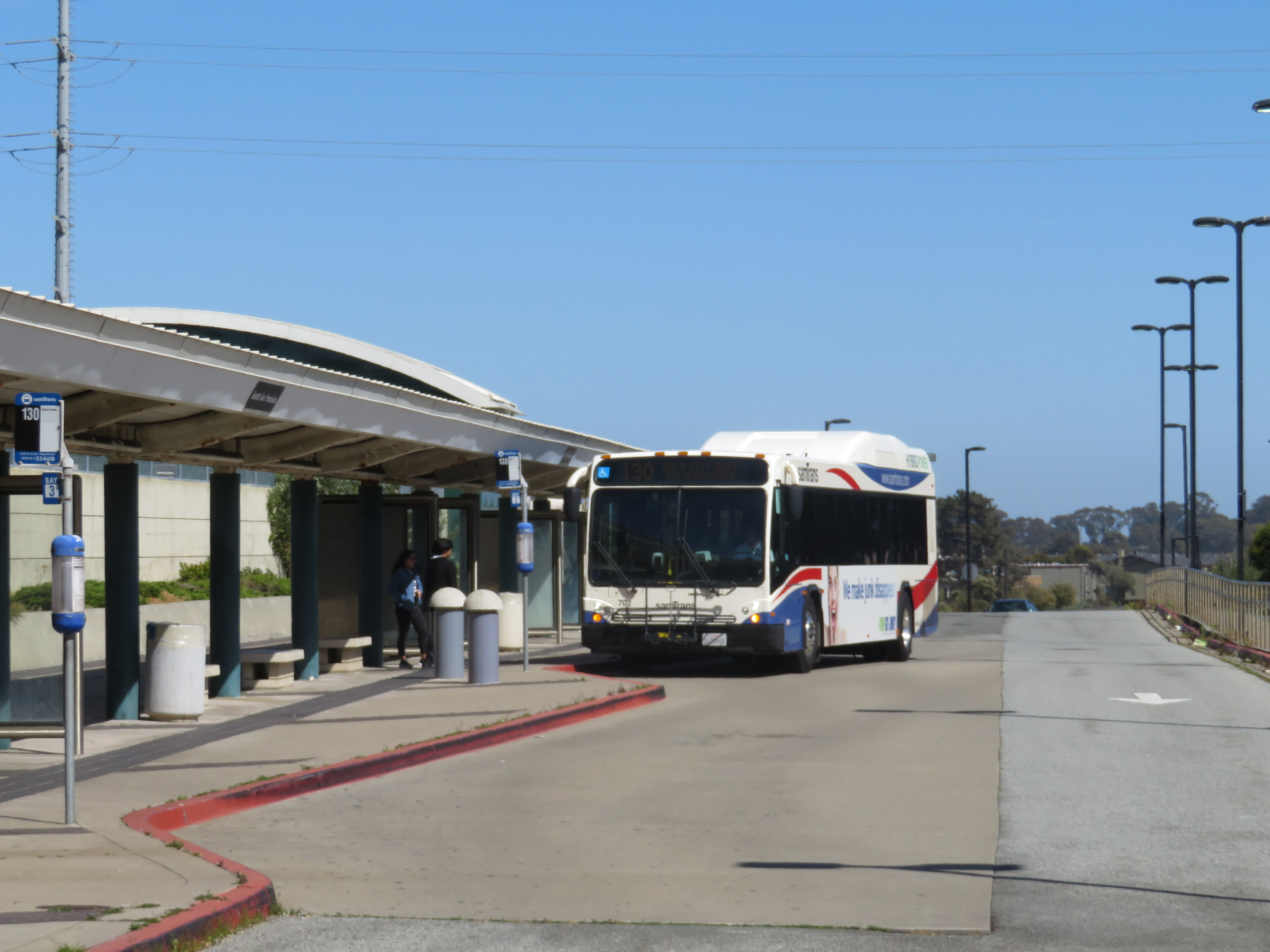 SamTrans route 130 bus at South San Francisco station in June 2018